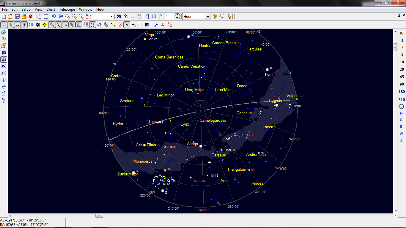 Cartes du ciel V3.2